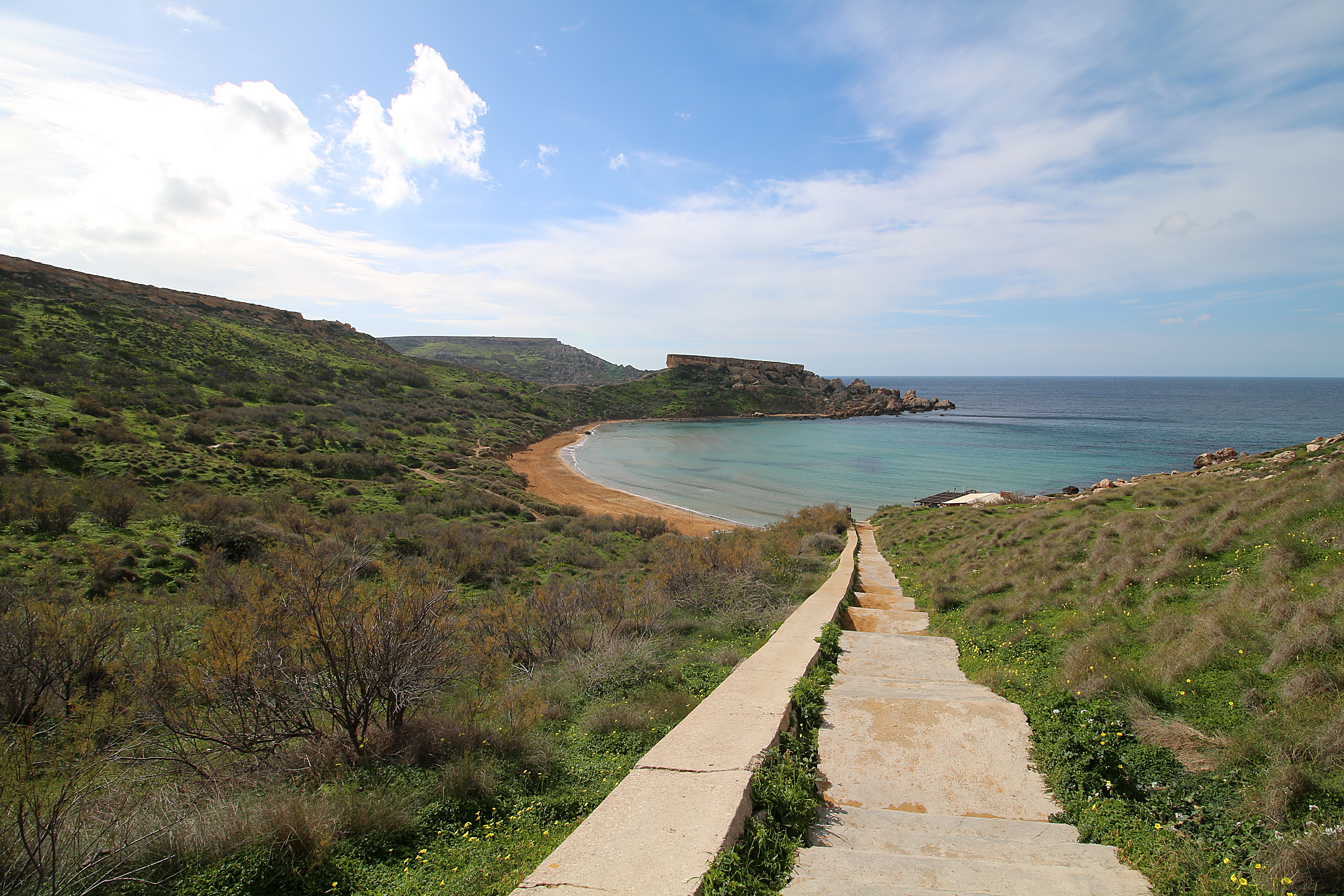 A view over the Tuffieha Bay in Malta.